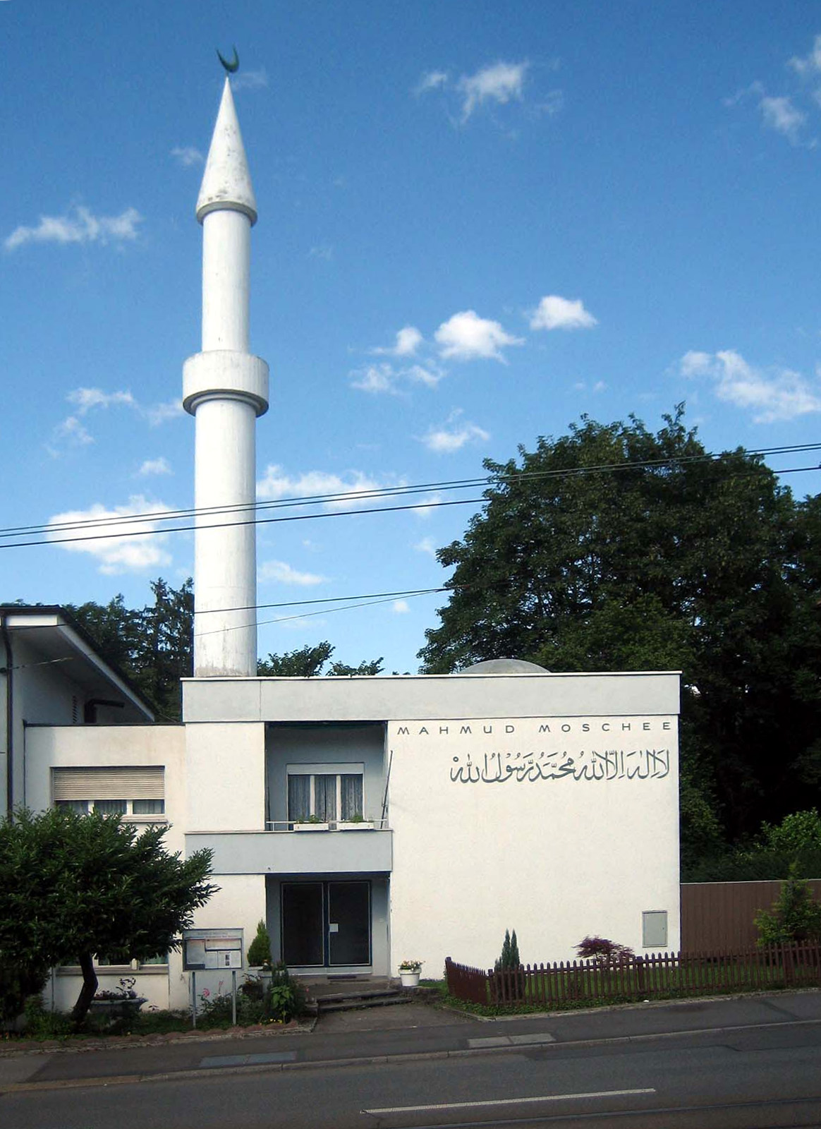 Mahmood Mosque in Zürich - The Arabic text "لا إله إلا الله محمد رسول الله" (Shahada) says "There is no god but God, and Muhammad is the messenger of God."